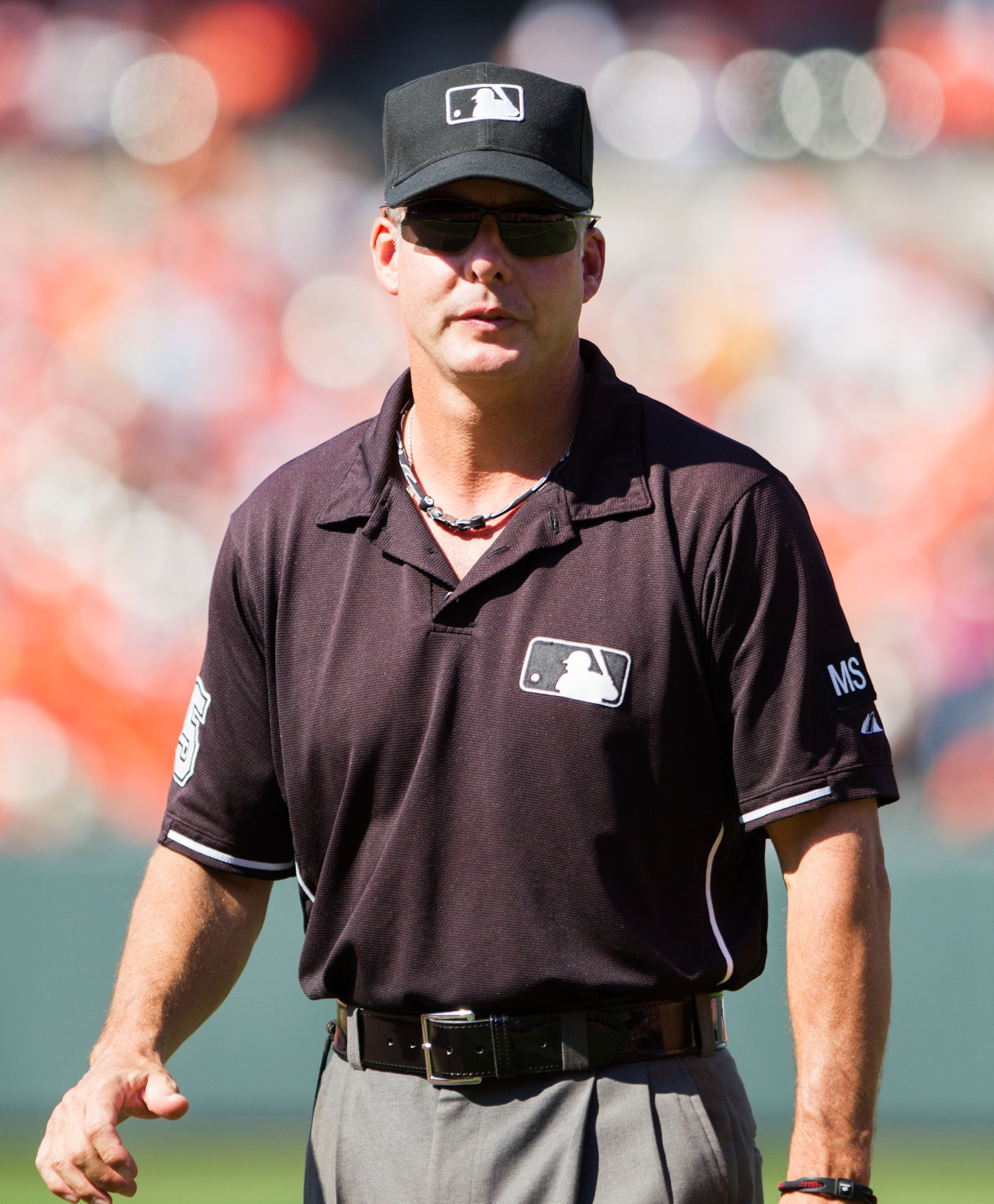 MLB umpire Tim Timmons – Tampa Bay Rays at Baltimore Orioles September 13, 2012